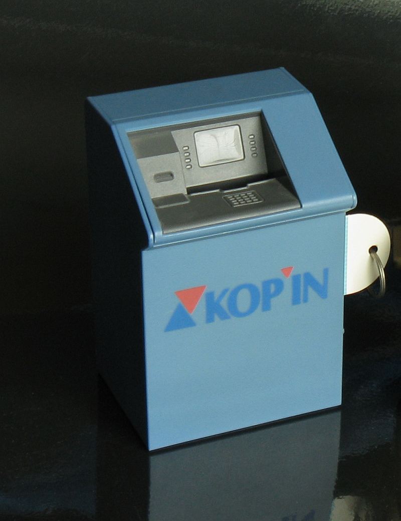 Kansallis-Osake-Pankki talletuslippaat